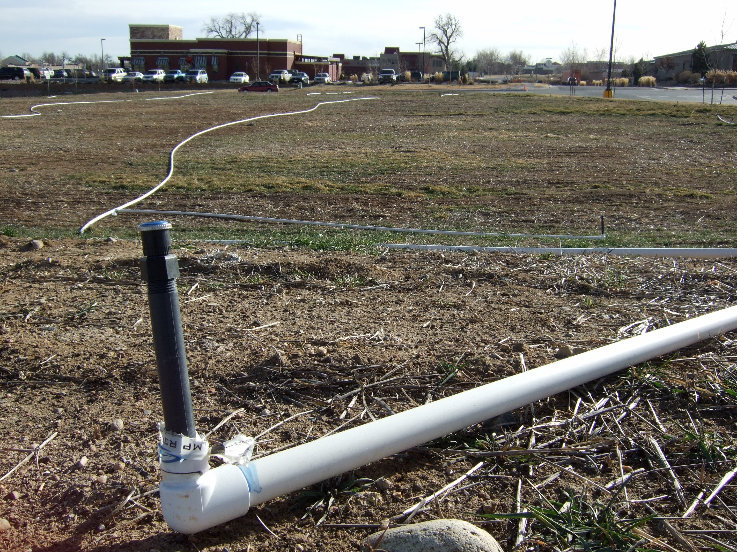 An irrigation sprinkler system that is about to be installed.